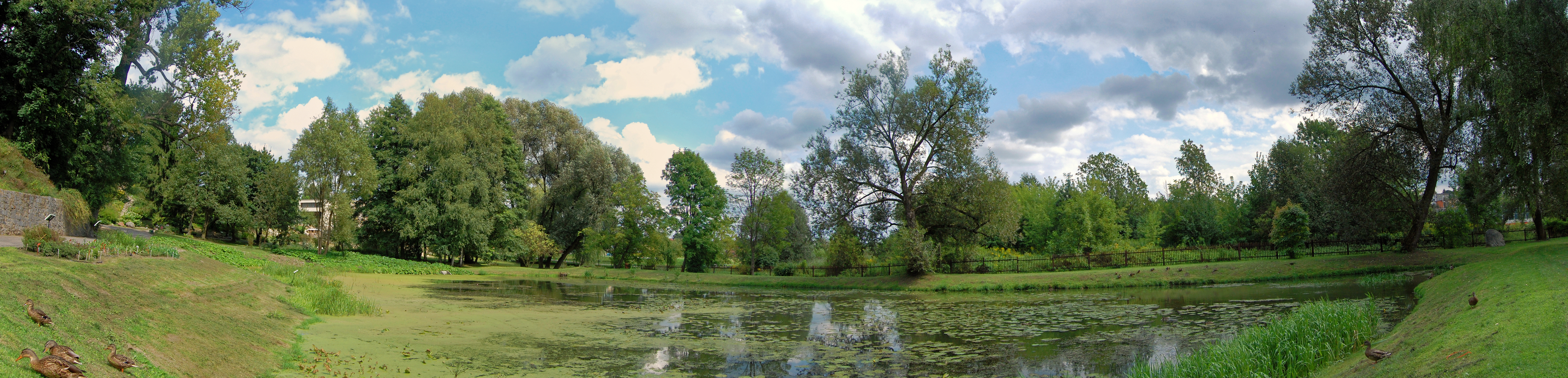 UMCS Botanical Garden in Lublin